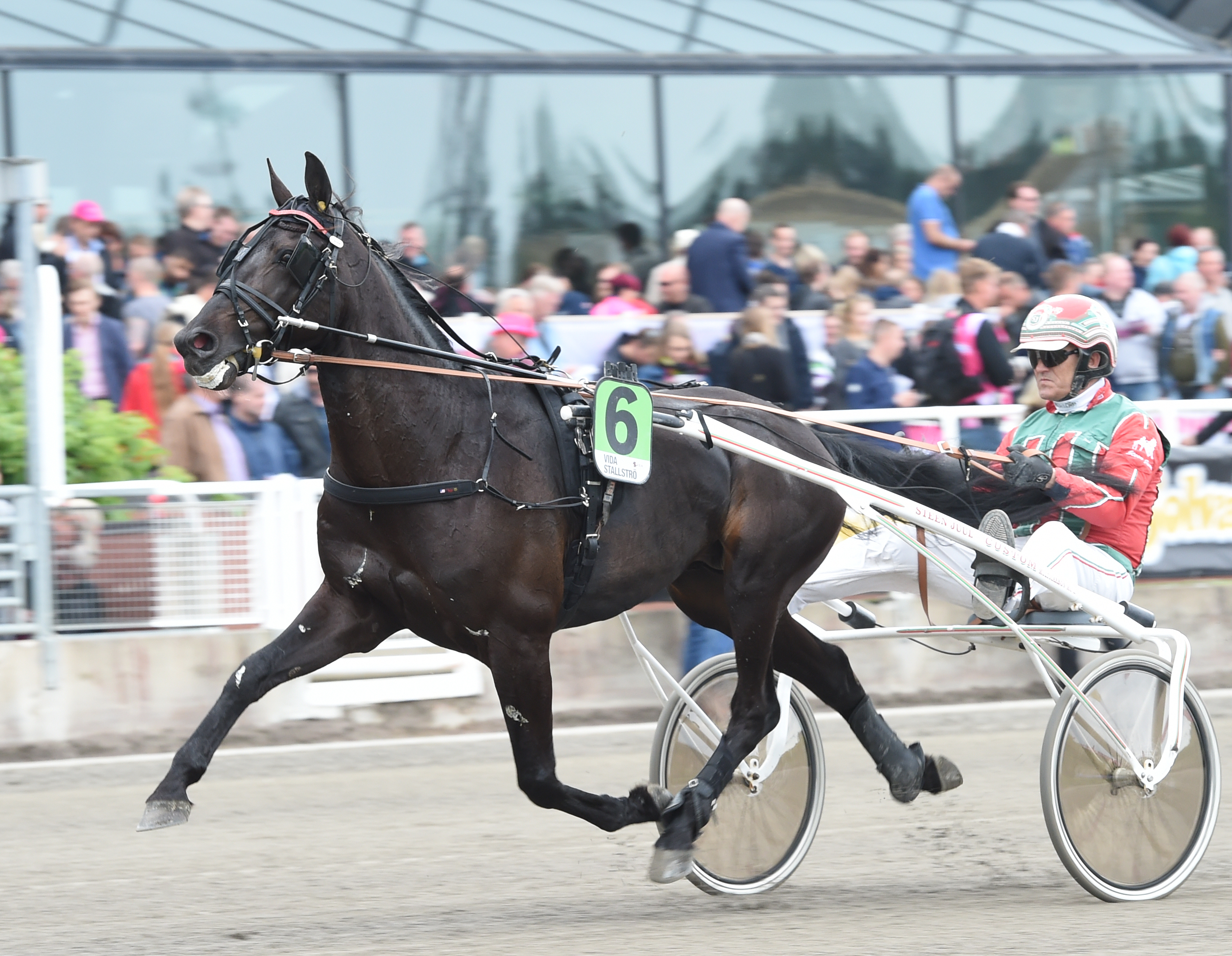 Takethem and Steen Juul in May 2016 at Solvalla.